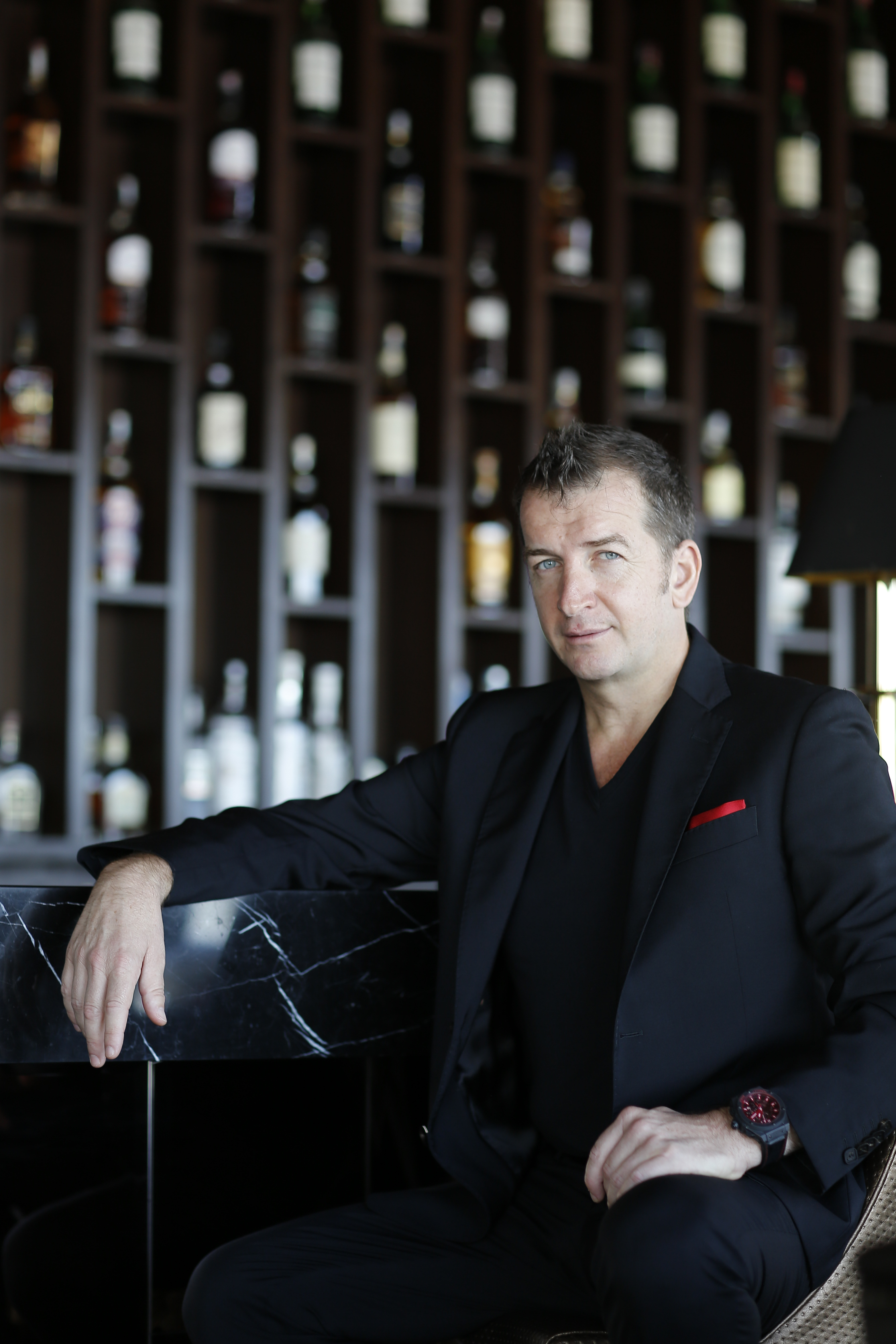 Founder of The Marini's Group